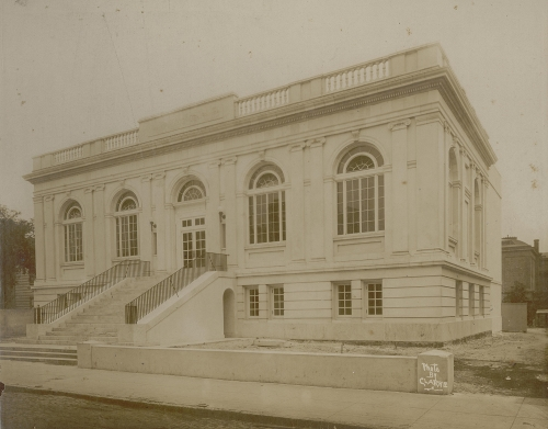 This Beaux Arts building was constructed at 164 King St., Charleston, S.C. to house the Charleston Library Society.